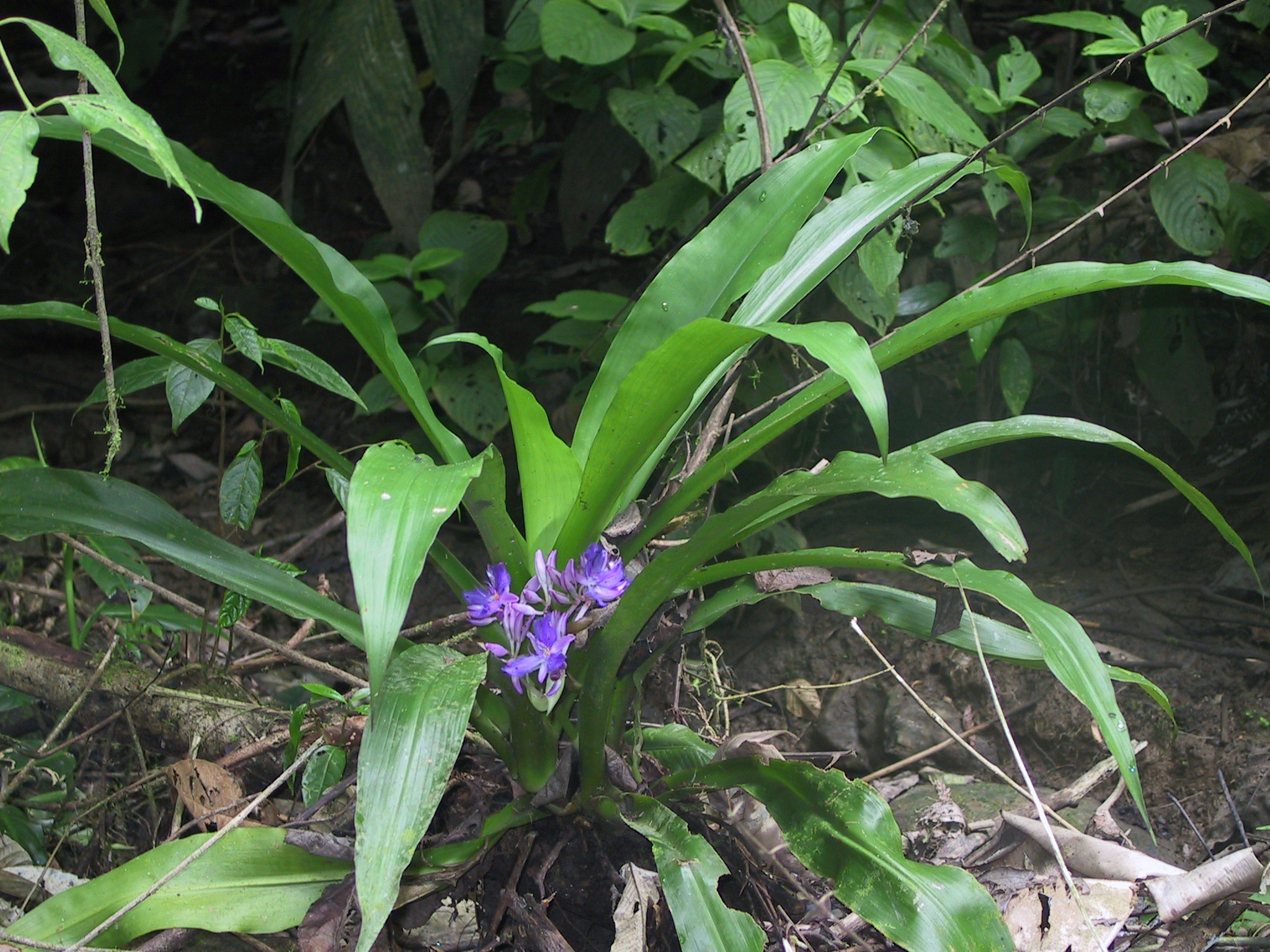 Description: Cochliostema odoratissimum, Costa Rica, National Parc La Amistad, Atlantic-Area, 650 m Source: self made Date: 2002-12-03 Author = --Ruestz 21:08, 2 April 2006 (UTC)